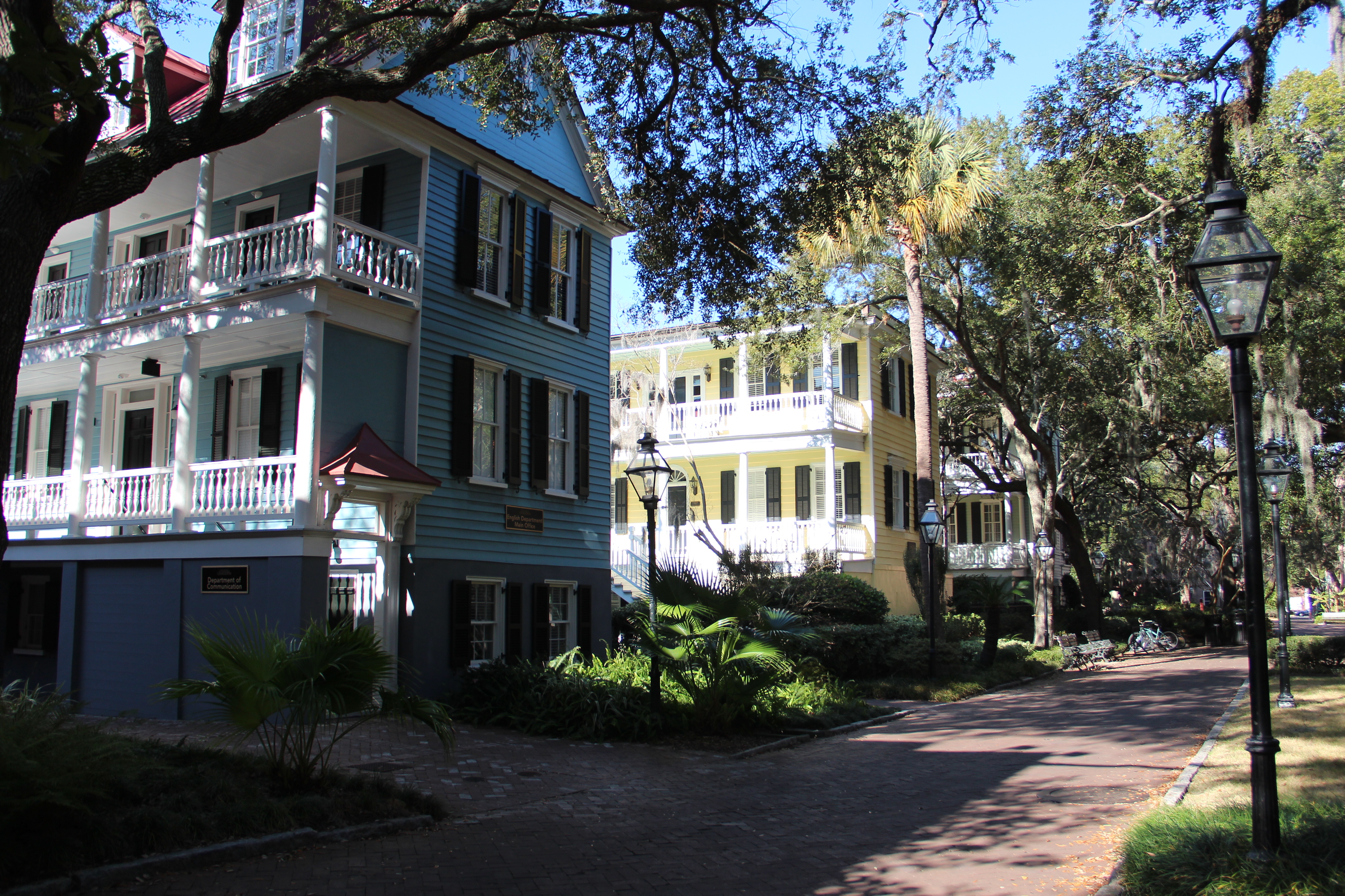 Communication Buildings, College of Charleston